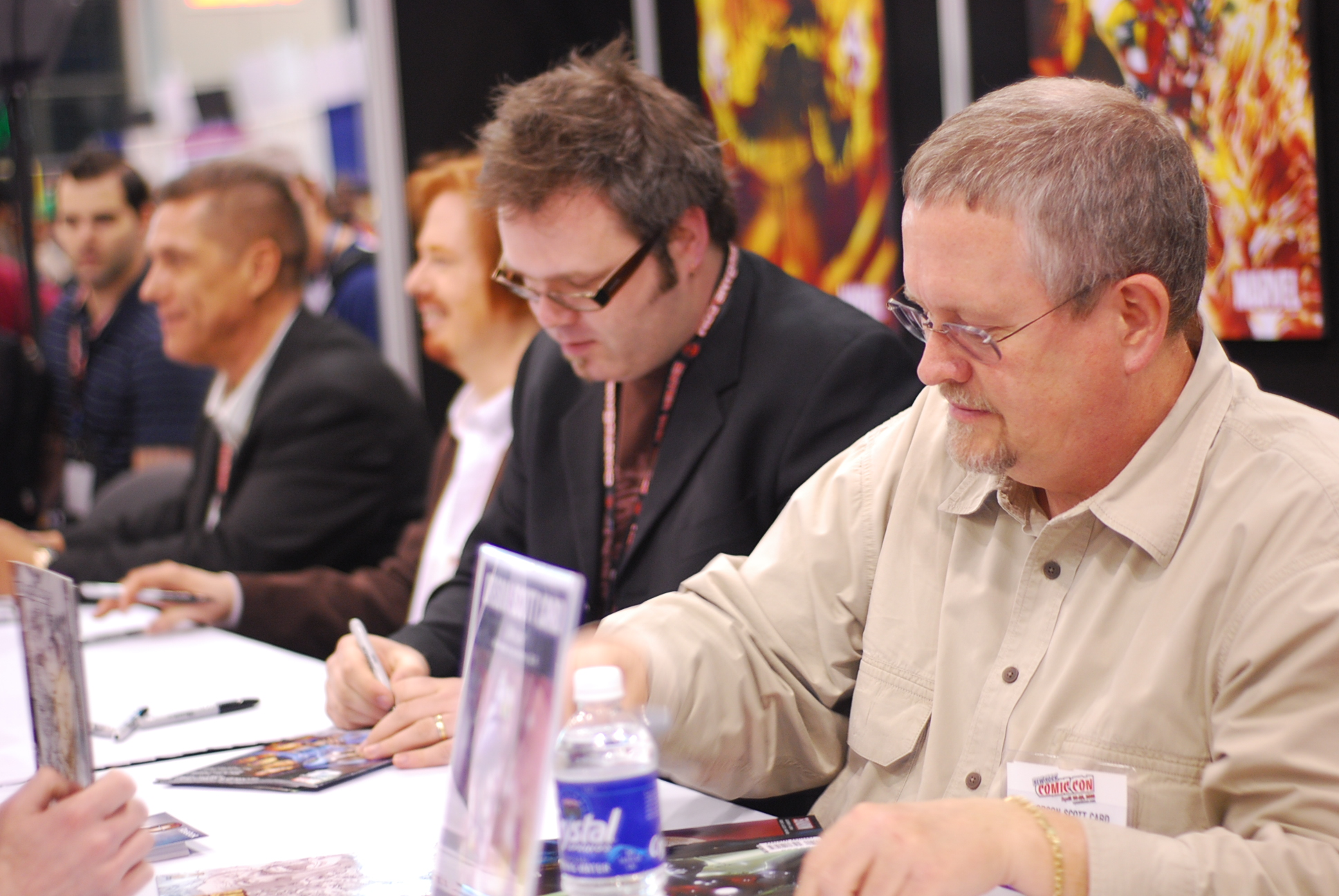 Orson Scott Card (wearing a name tag) at the 2008 Comic-Con's autograph table